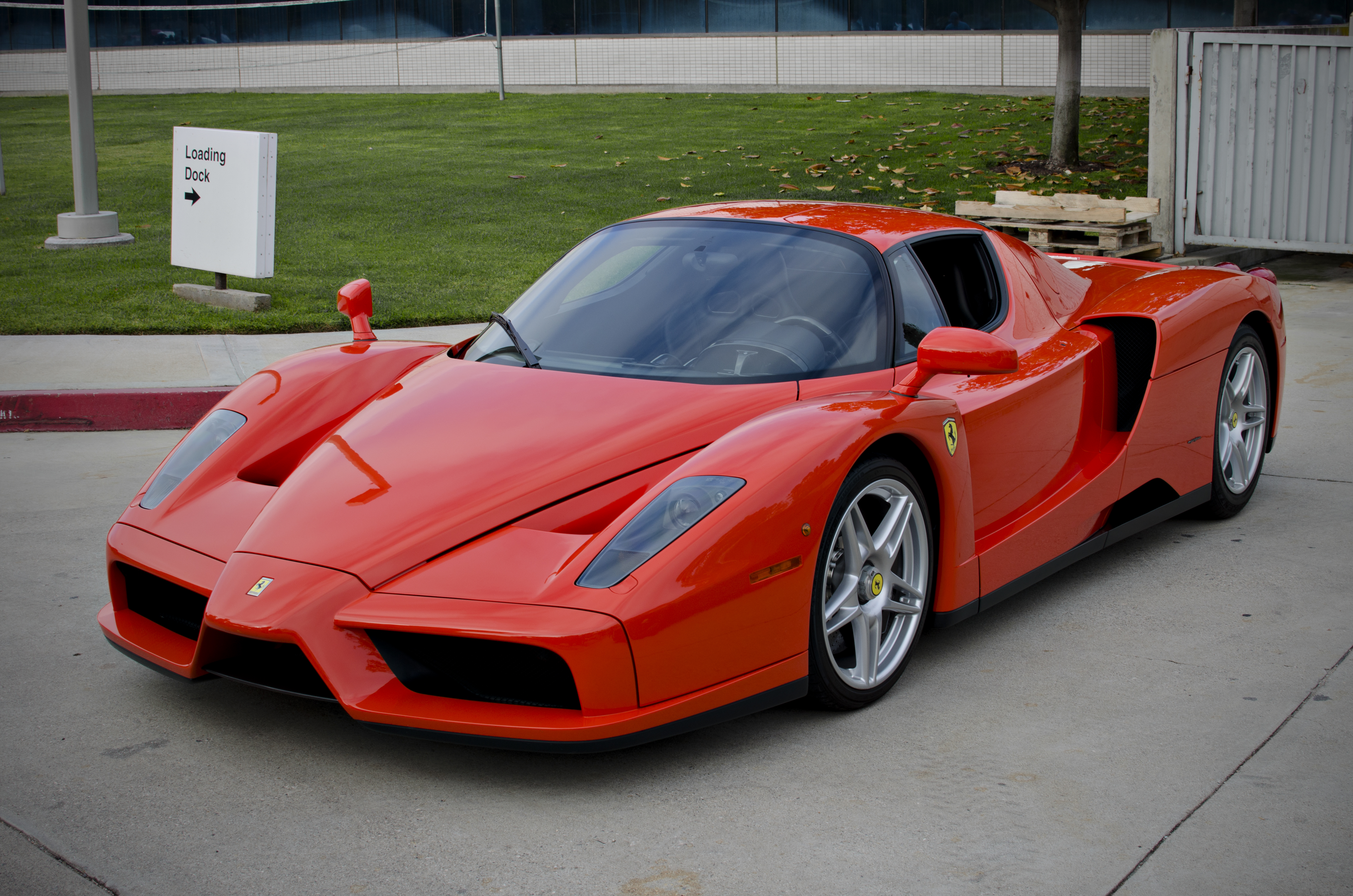 Orange Enzo Ferrari @ Cars and Coffee